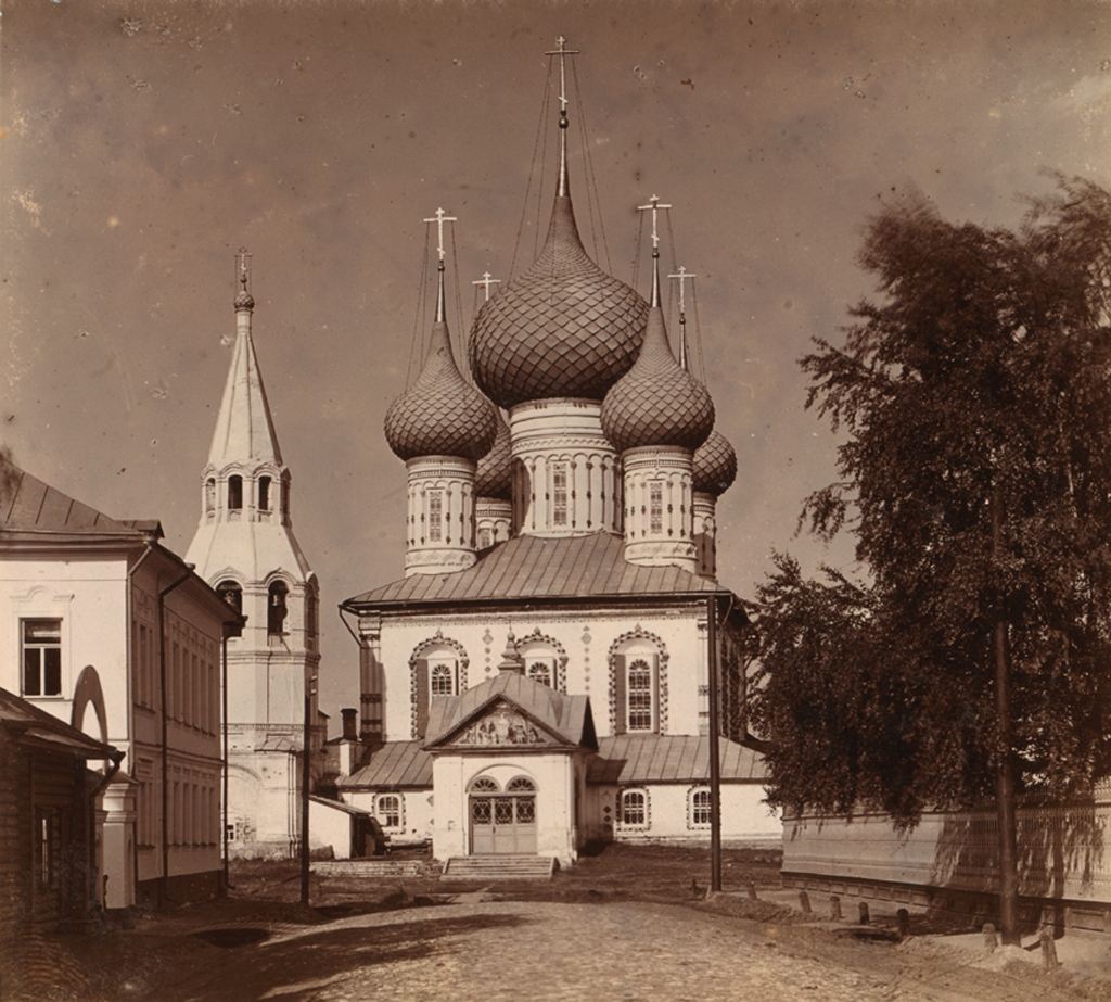 The Church of Sts. Peter and Paul. A view from Petropavlovskaya Street (now Oktyabrskaya Square). Yaroslavl, 1910. Photographer S. M. Prokudin-Gorskii.